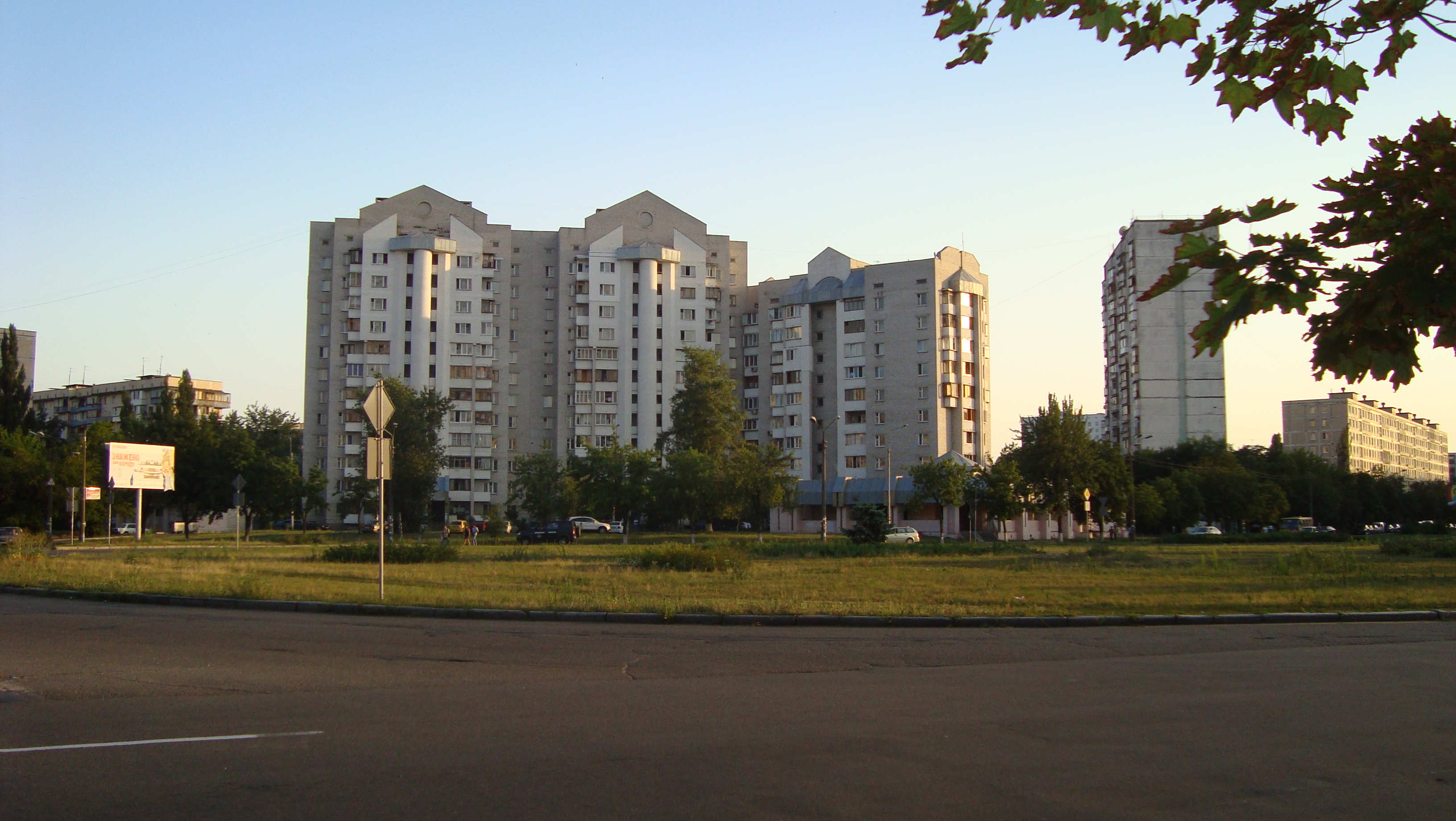 Volhogradska Square, Lisovyi masuv, Kyiv Волгоградська площа, Лісовий масив, Деснянський район, Київ